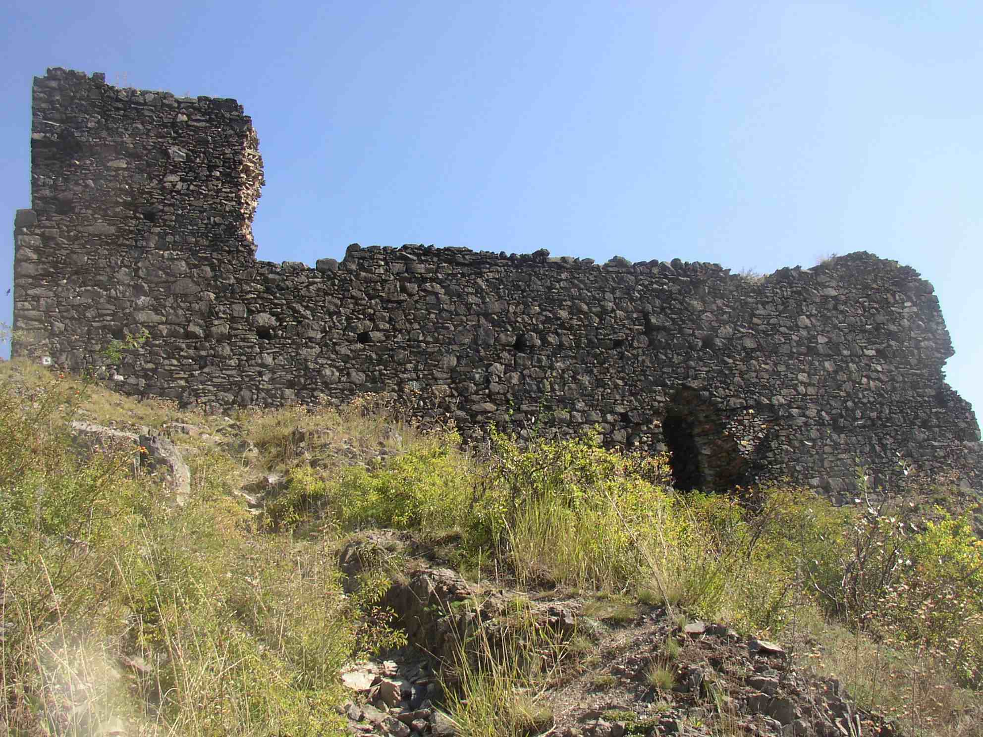 Ruin of Košťálov Castle on a hill of the same name above Třebenice, Czech Republic.